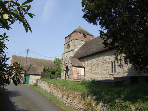 St Giles' parish church, Barrow, Shropshire, seen from the southeast